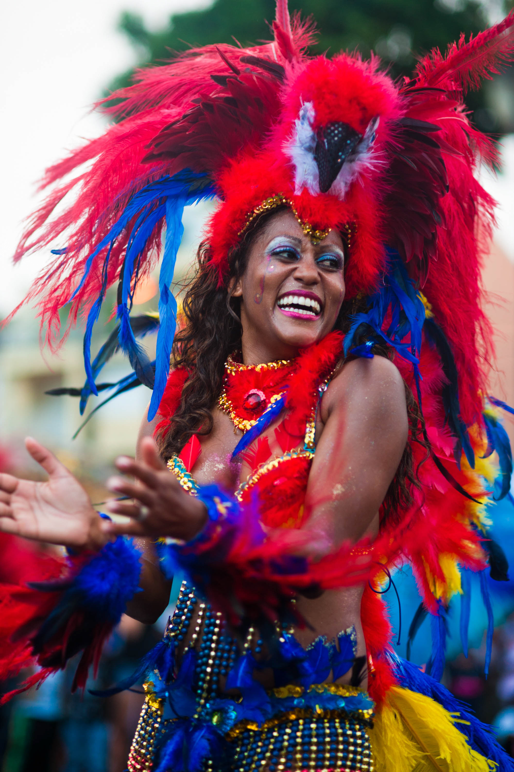 Guadeloupe winter carnival, Pointe-Г -Pitre parade. A young woman, performer wearing traditional carnival outfit (waist up outdoor portrait).